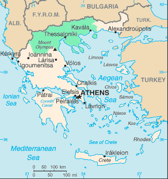 Adapted from Image:Gr-map.png Category:Maps of Greece